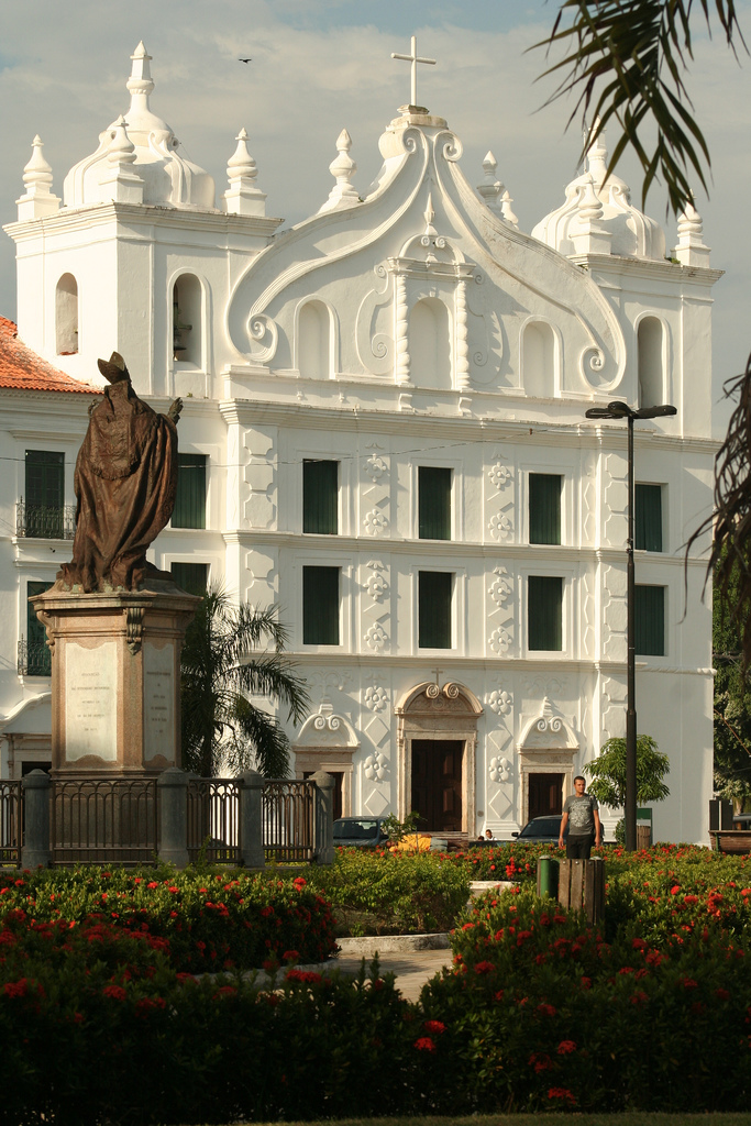 Jesuit St Alexandre college and church in Belém, Brazil